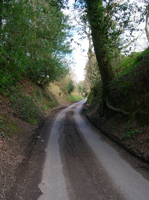 Holloway, Chanctonbury Ring Road. An old droving lane that linked Downland farms with their Wealden pastures.